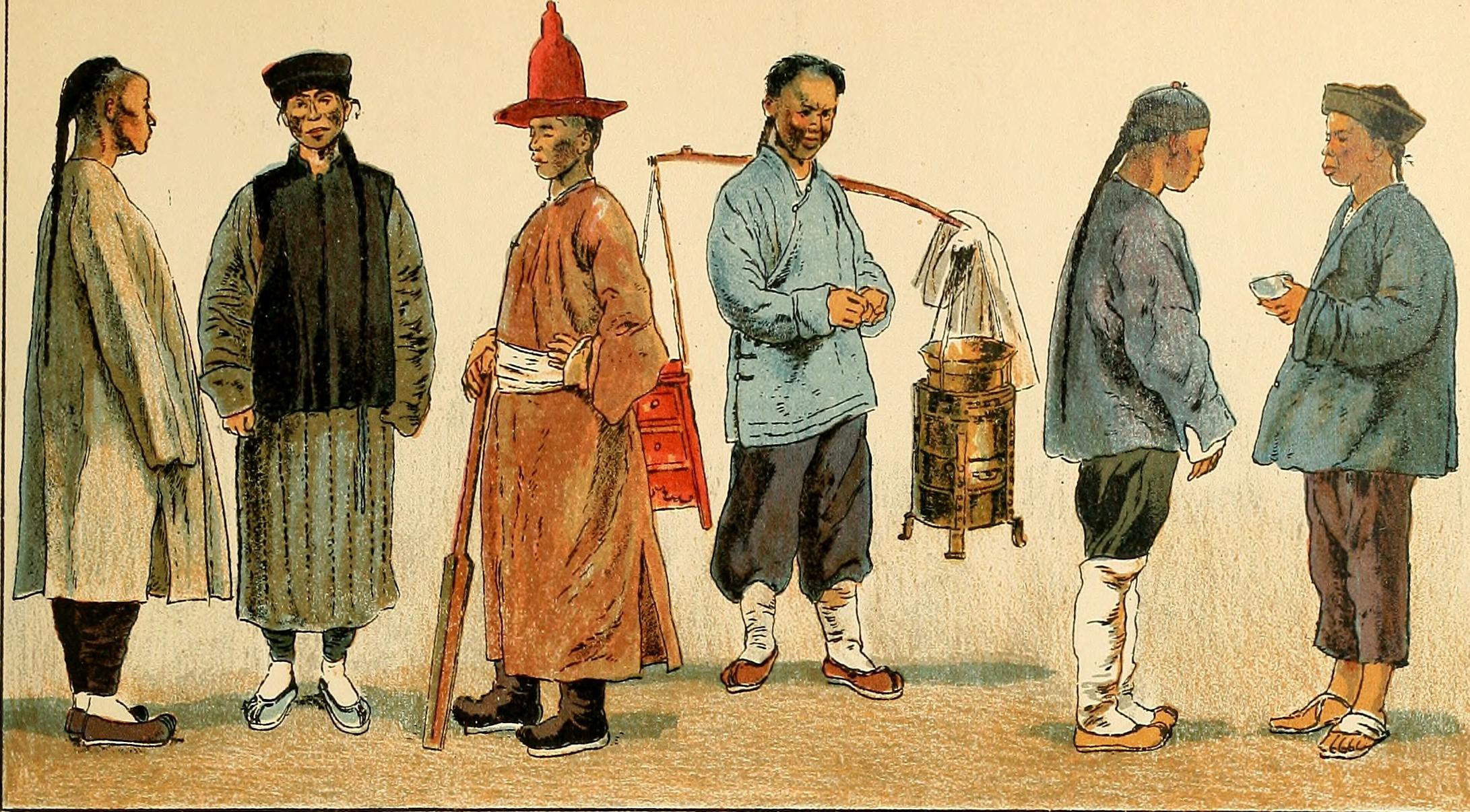 Title: Geschichte des Kostüms Year: 1905 (1900s) Authors: Rosenberg, Adolf, 1850-1906 Heyck, Eduard, 1862-1941 Subjects: Costume Publisher: New York, Weyhe Text Appearing Before Image: CHINA OMENS DRESS CHINA FRAUENTRACHTEN CHINE COSTUMES POÖR-FEMMES GEDRUCKT UND VERLEGT BEI ERNST WASMi ., BERLIN 366 . CHINA VOLKSTRACHTEN UND STANDESTRACHTEN 12 3 4 5 67 8 9 JO 11 12 Fig. 1, Diener (barhäuptig). Fig. 2. Einfacher Mann aus Nordchina, Wintertracht. Fig. 3. Gerichtsdiener. Fig. 4. Straßenbarbier. Wattierte Jacke. Fig. 5. Mann aus dem niederen Volk. Fig. 6. Landmann, mit Filzhut. Fig. 7. Offizier. Fig. 8. Gemeiner Soldat. Fig. 9. Soldat aus Kuldscha in Ostturkistan. Vgl. Tafel 371. Fig. 10. General der Reiterei. Kostüm des alten Stils. Figg. 11 und 12. Mandarinen hoher Klasse. Text Appearing After Image: '